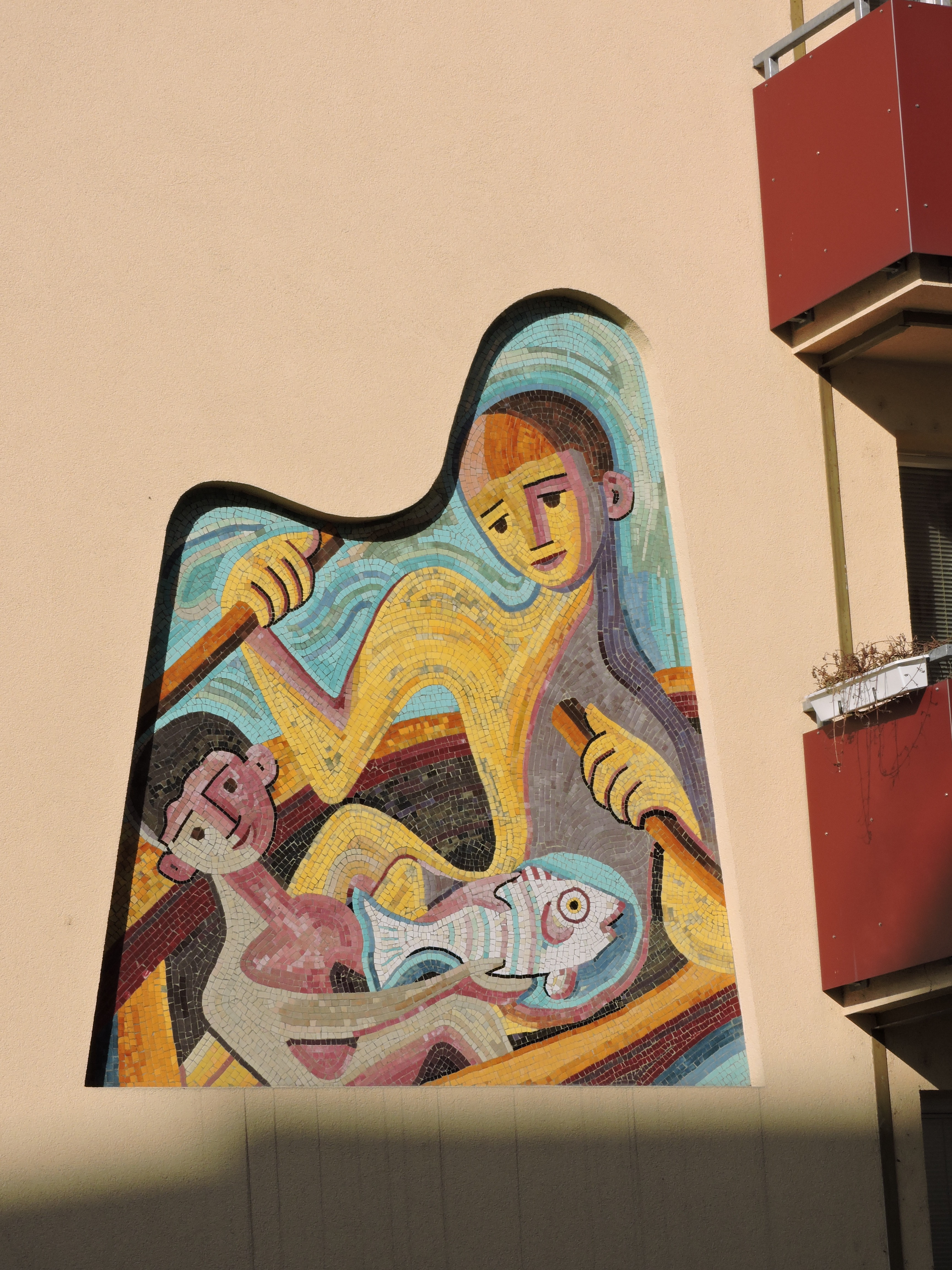 Carry Hauser - Mosaic "Fisher"